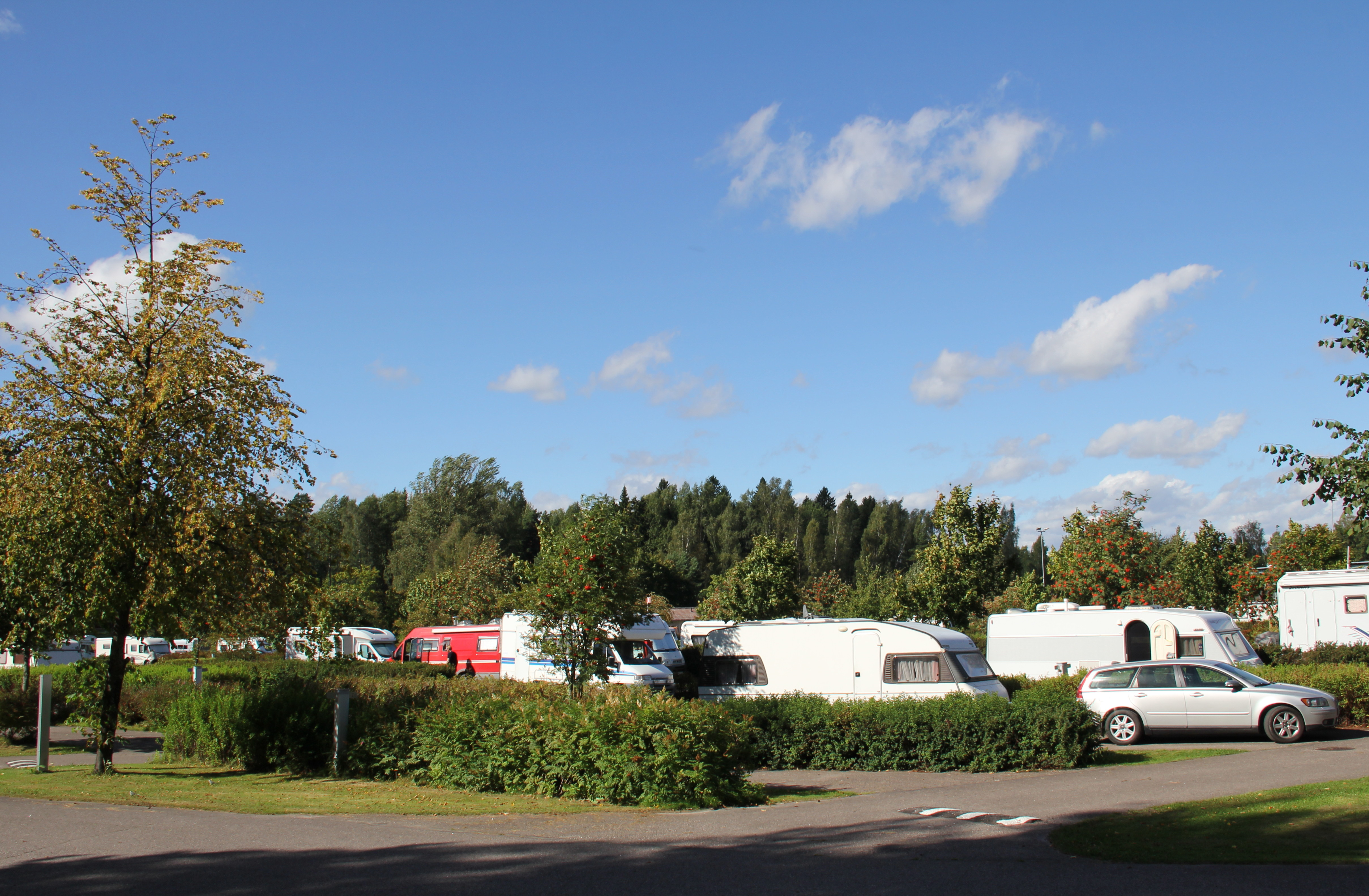 Rastila camping, Helsinki, Finland.